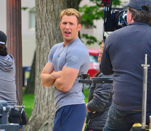 Set picture of Chris Evans filming Captain America: The Winter Soldier in Washington, D.C.